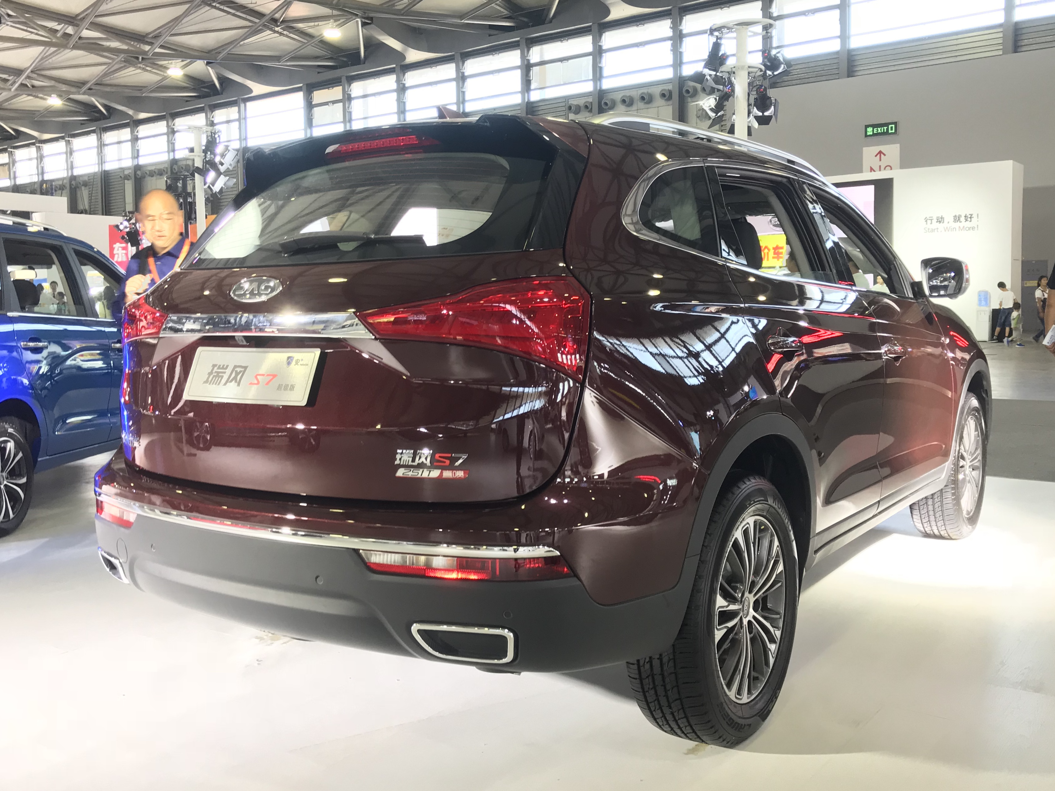 Eefine S7 reary